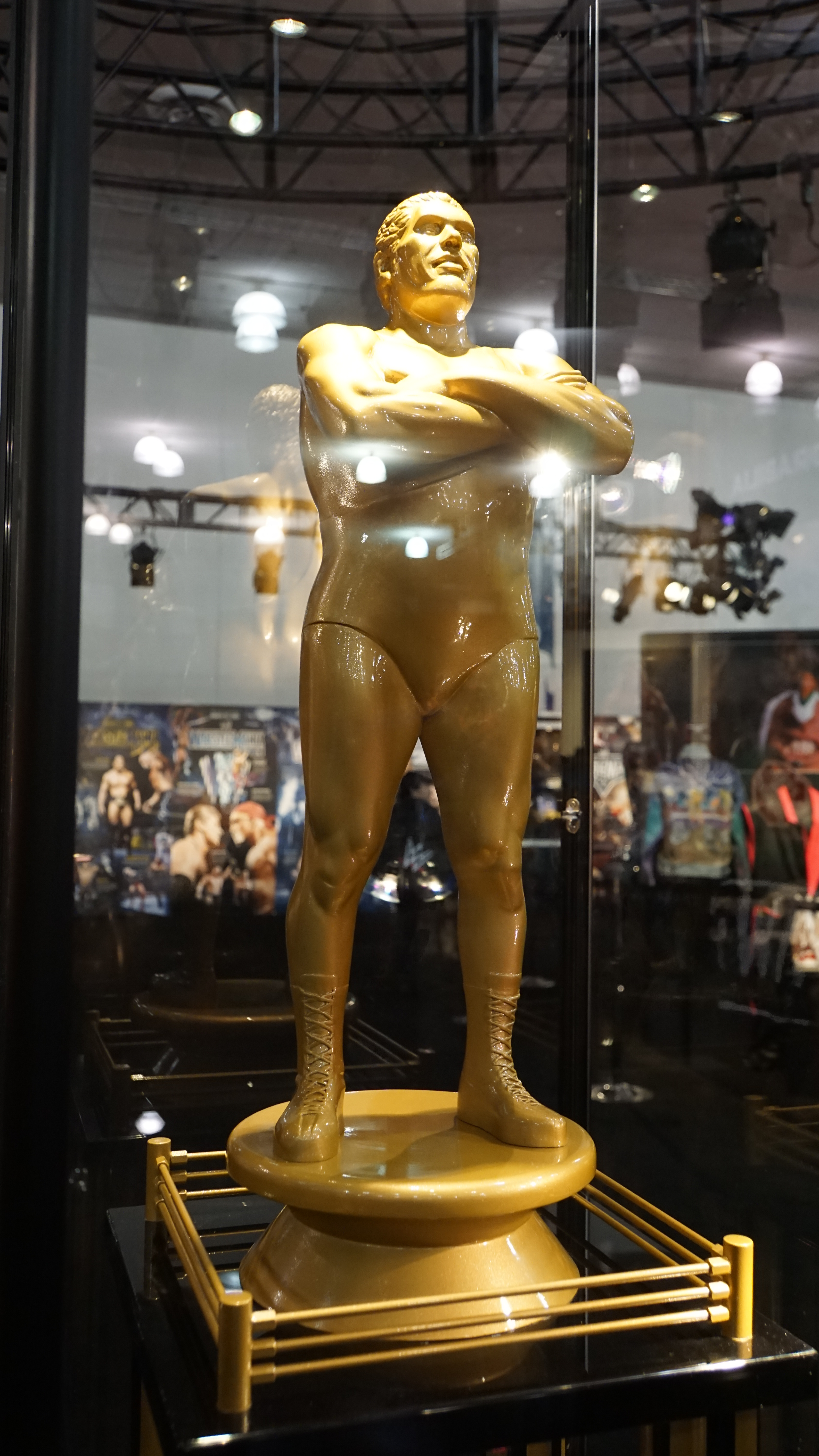 2015-03-28_08-18-46_ILCE-6000_DSC04210